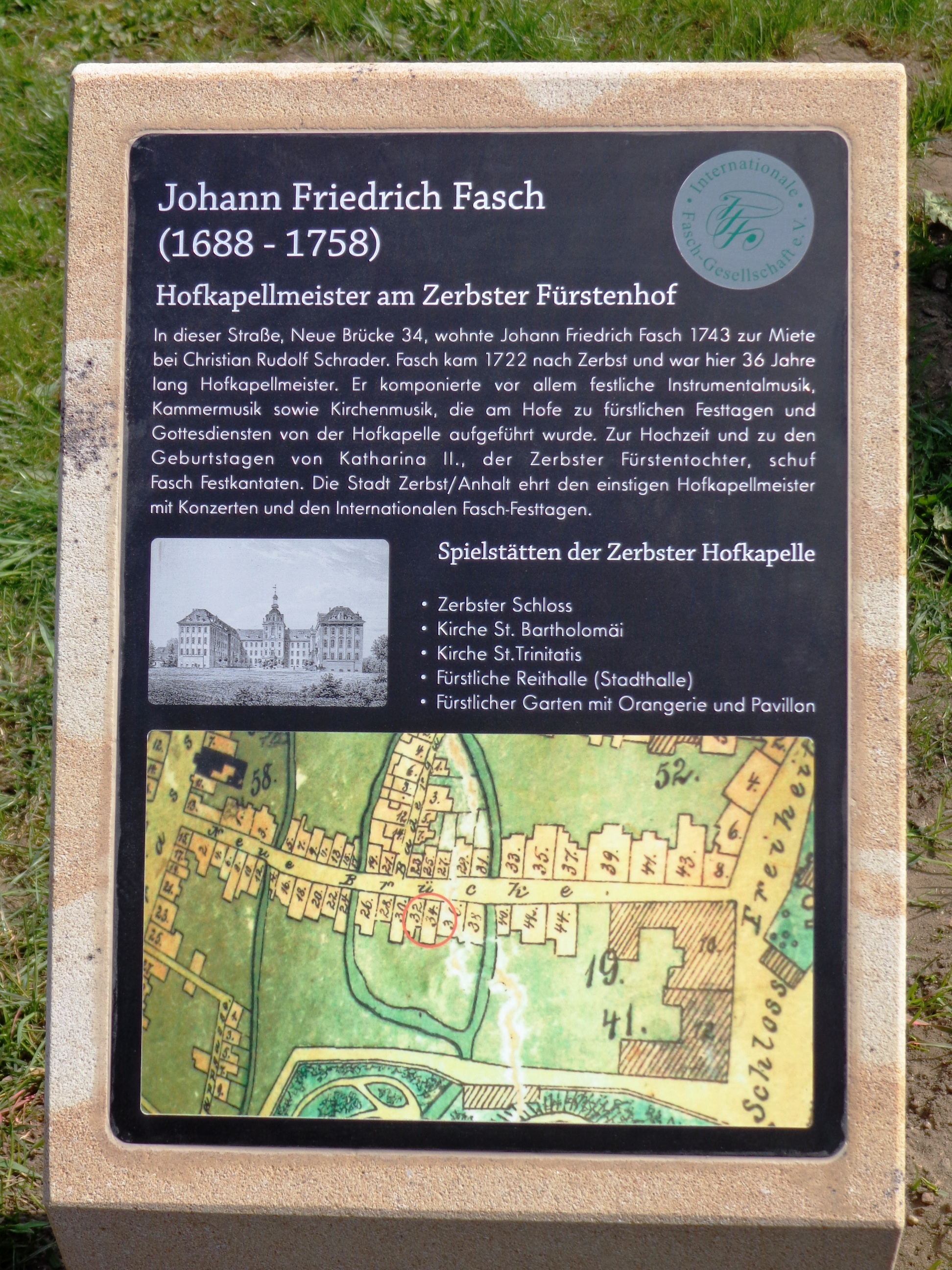 Johann Friedrich Fasch monument in Zerbst, Germany